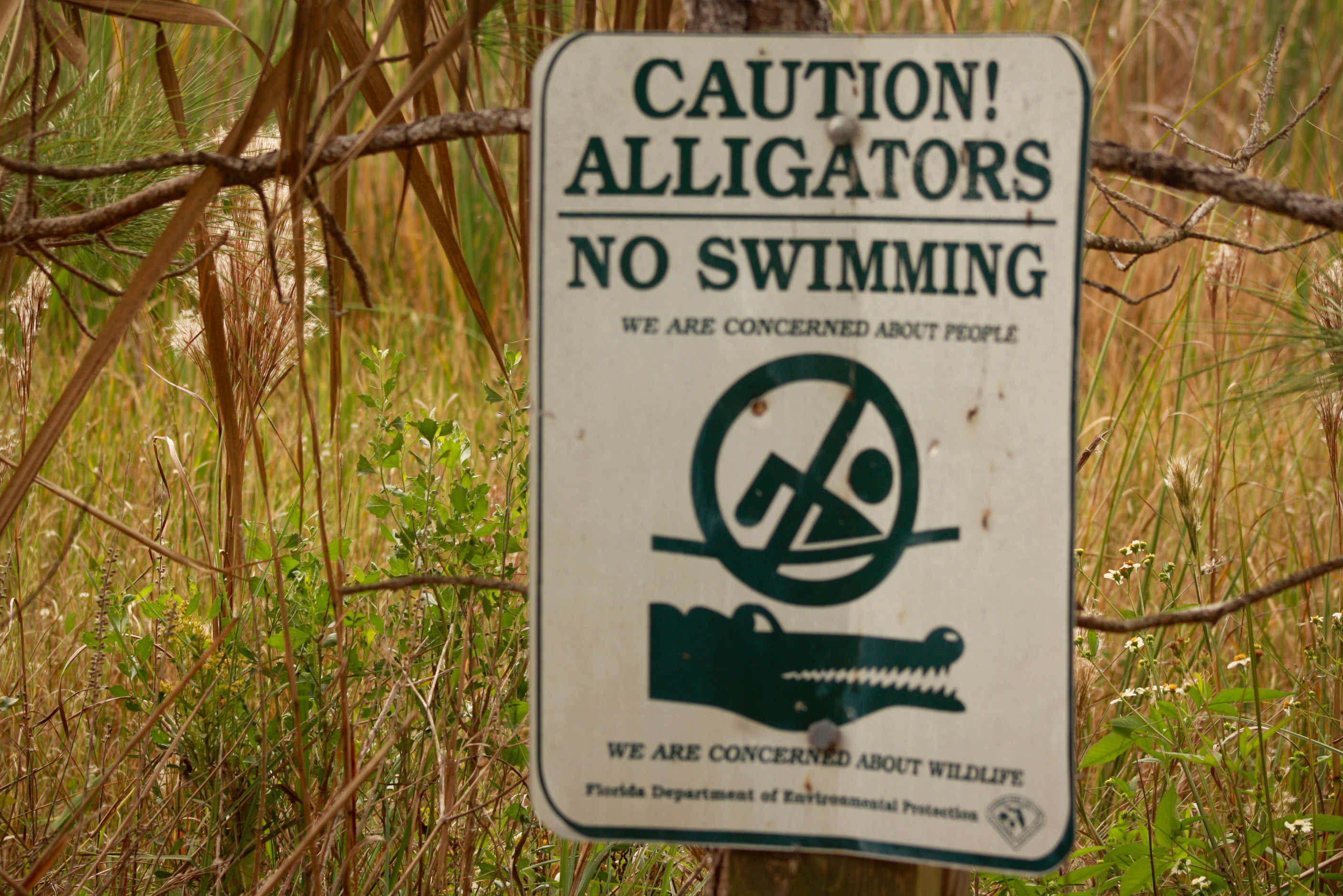 Glad they are so concerned about us.